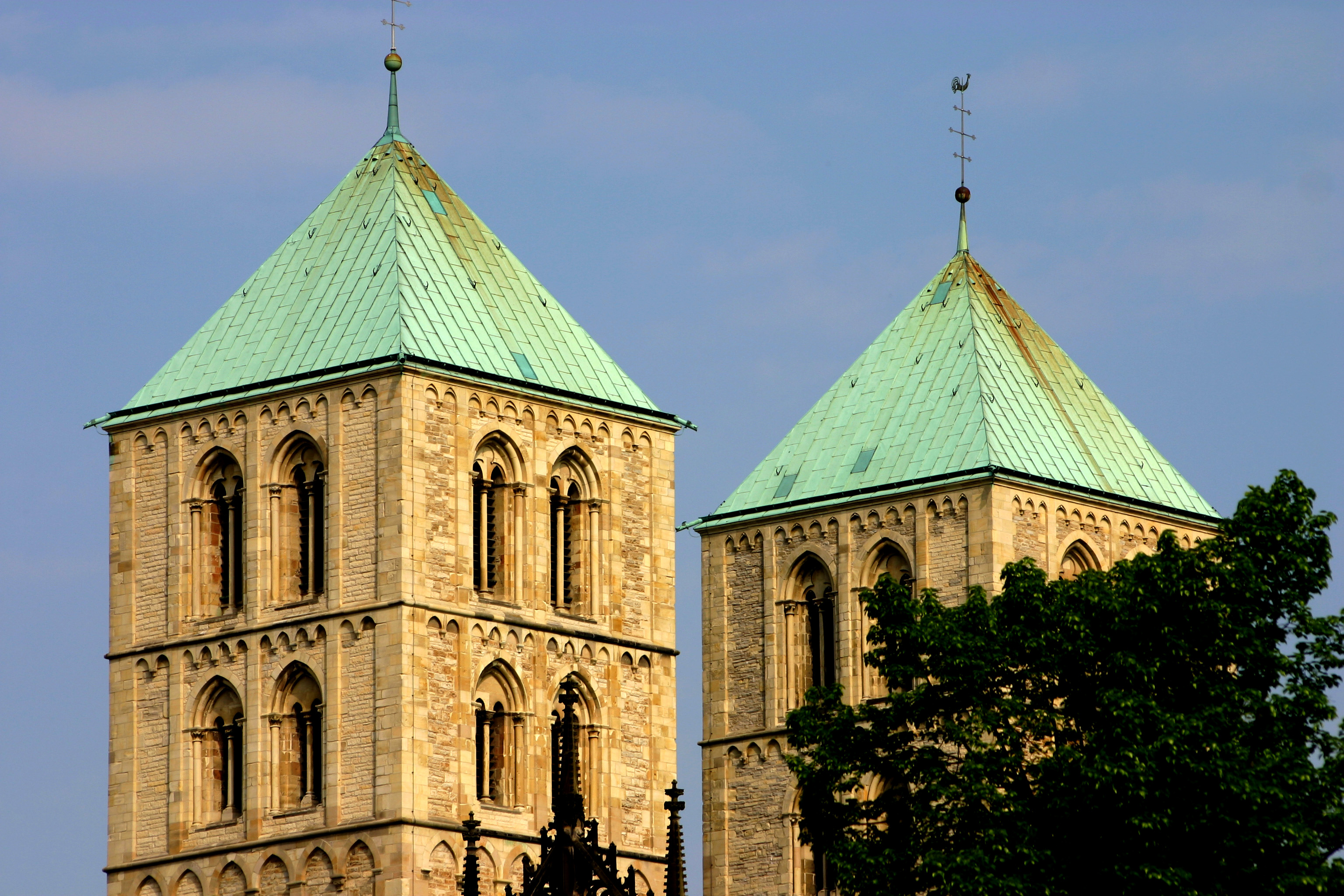 The towers of St. Pauls Cathedral in Münster